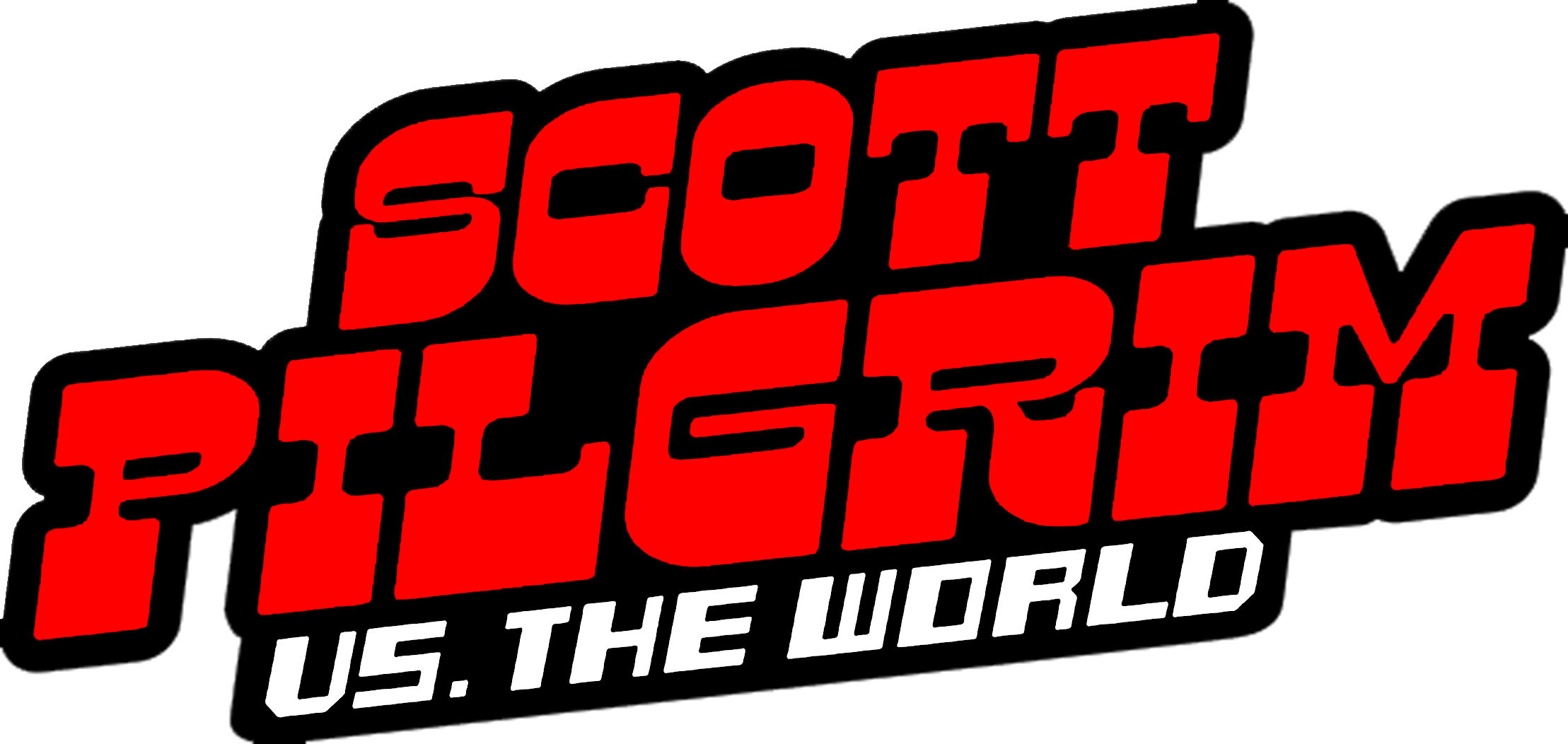 Scott Pilgrim vs. The World logo